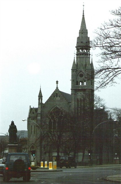 Queen's Cross Church At the junction of Albyn with Queen's Cross, Aberdeen.